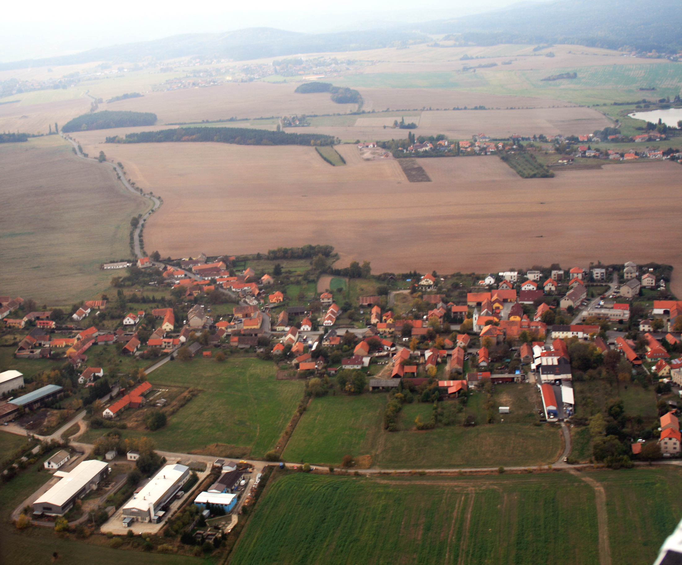 Air photo of Rosovice in central Bohemia, Czech Republic